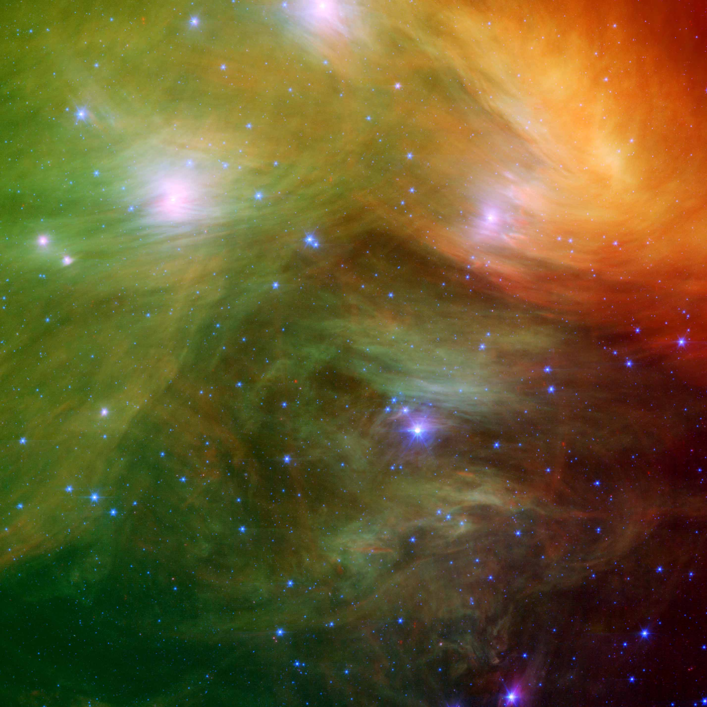 Pleiades (M45, Seven Sisters) open cluster - infrared image from NASA's Spitzer Space Telescope